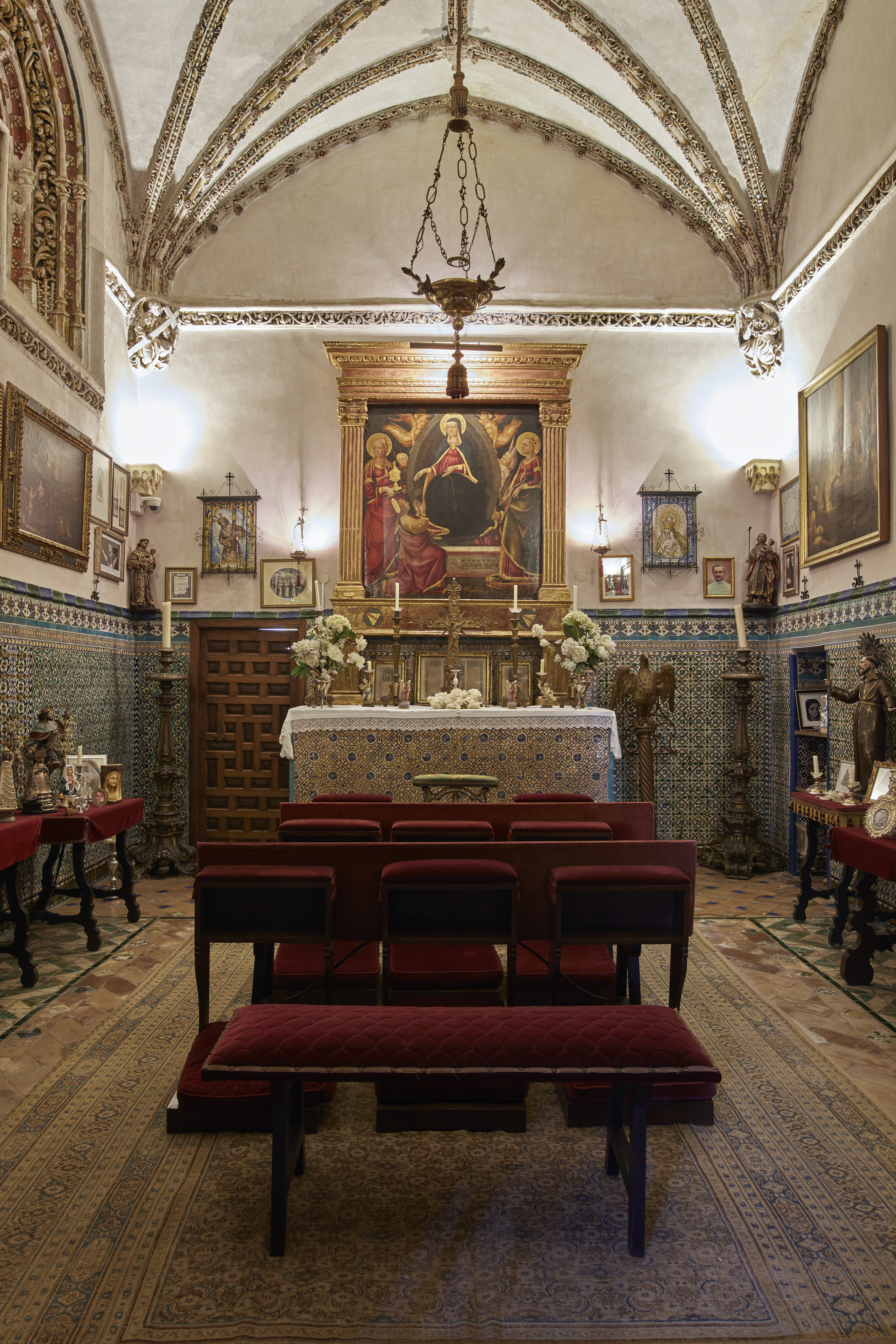 Chapel